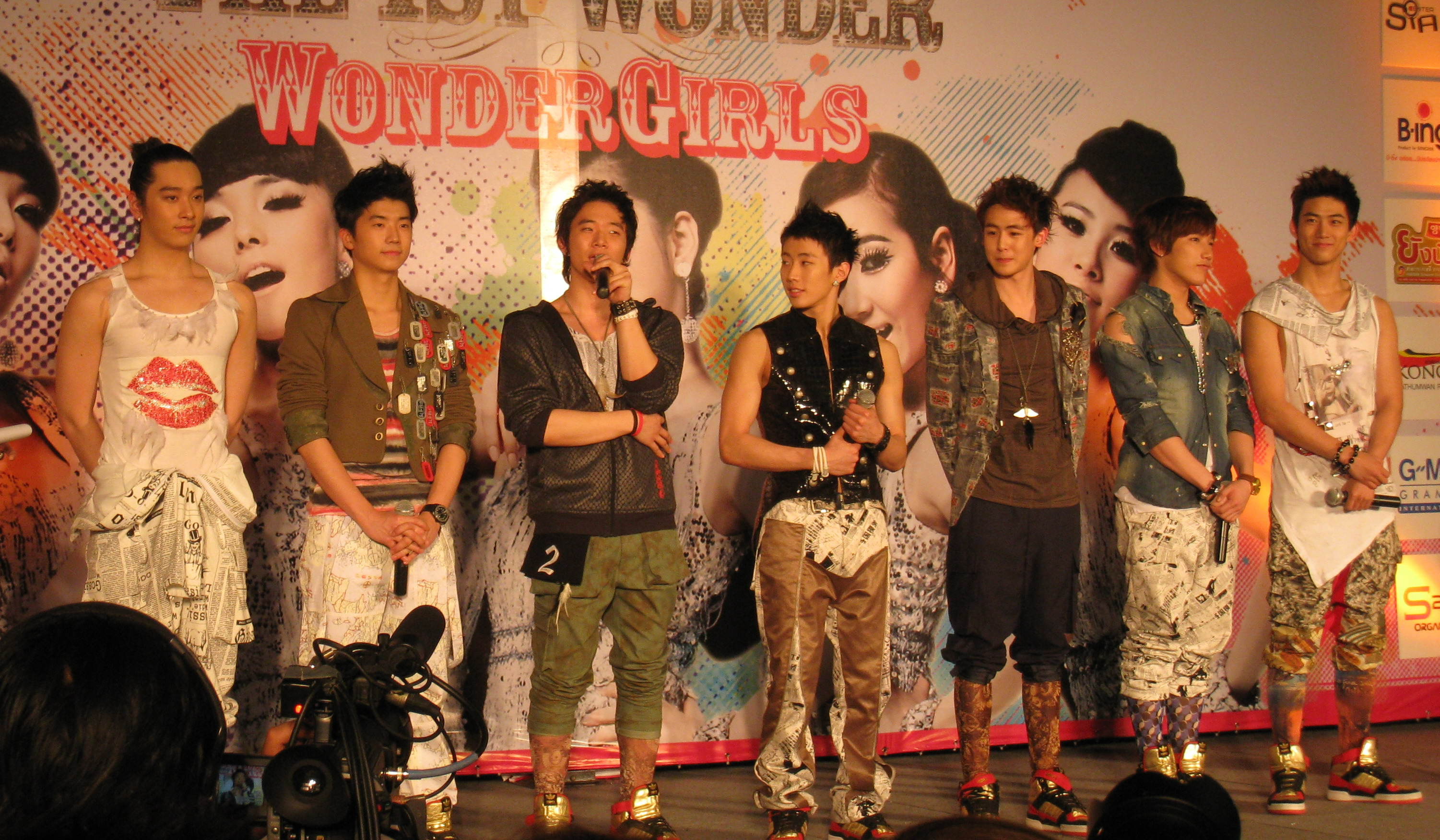 2PM at press conf. of Wonder Girls The First Wonder Live In Bangkok.